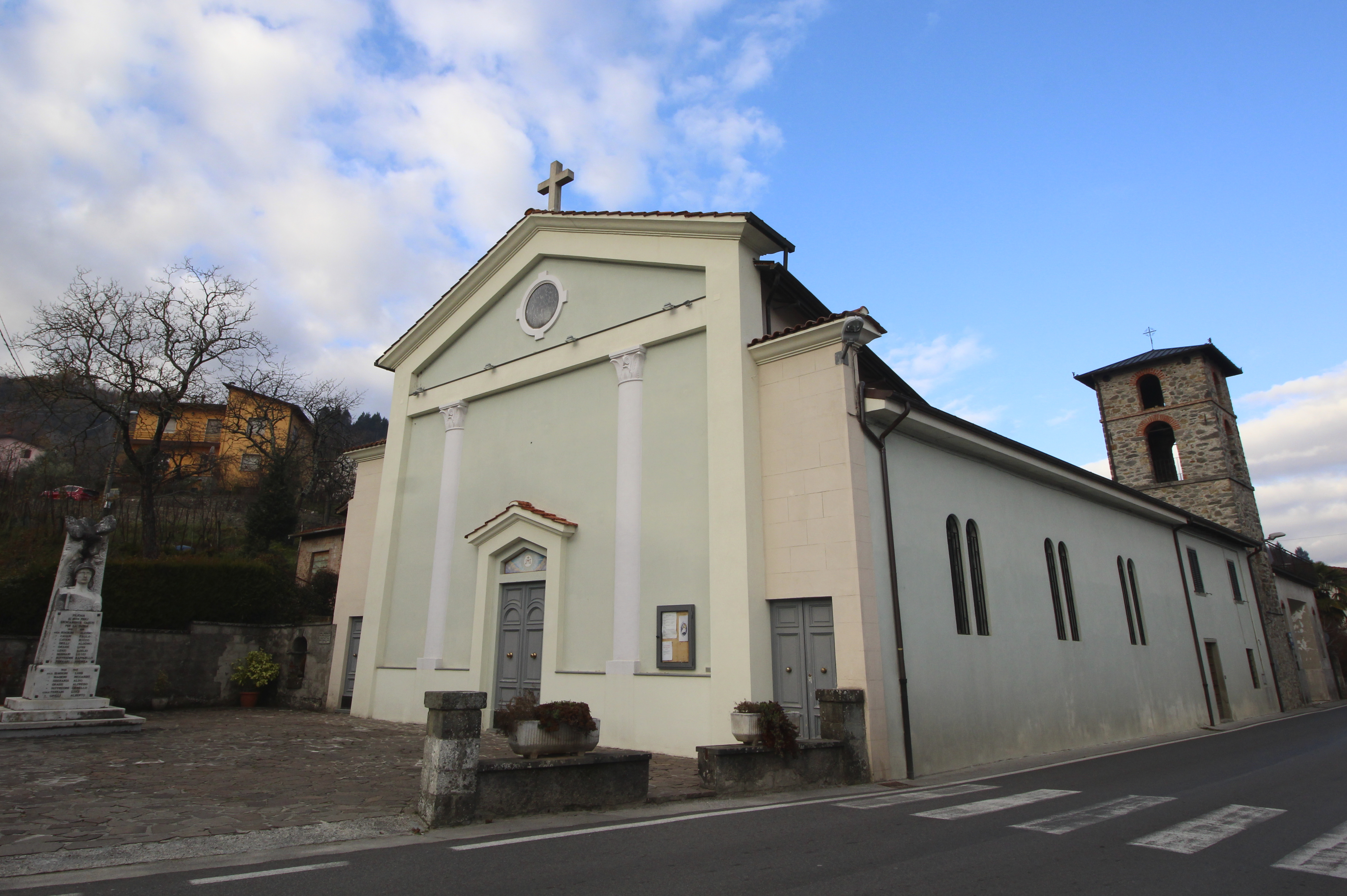 Church San Rocco, Filicaia, hamlet of Camporgiano, Garfagnana, Province of Lucca, Tuscany, Italy